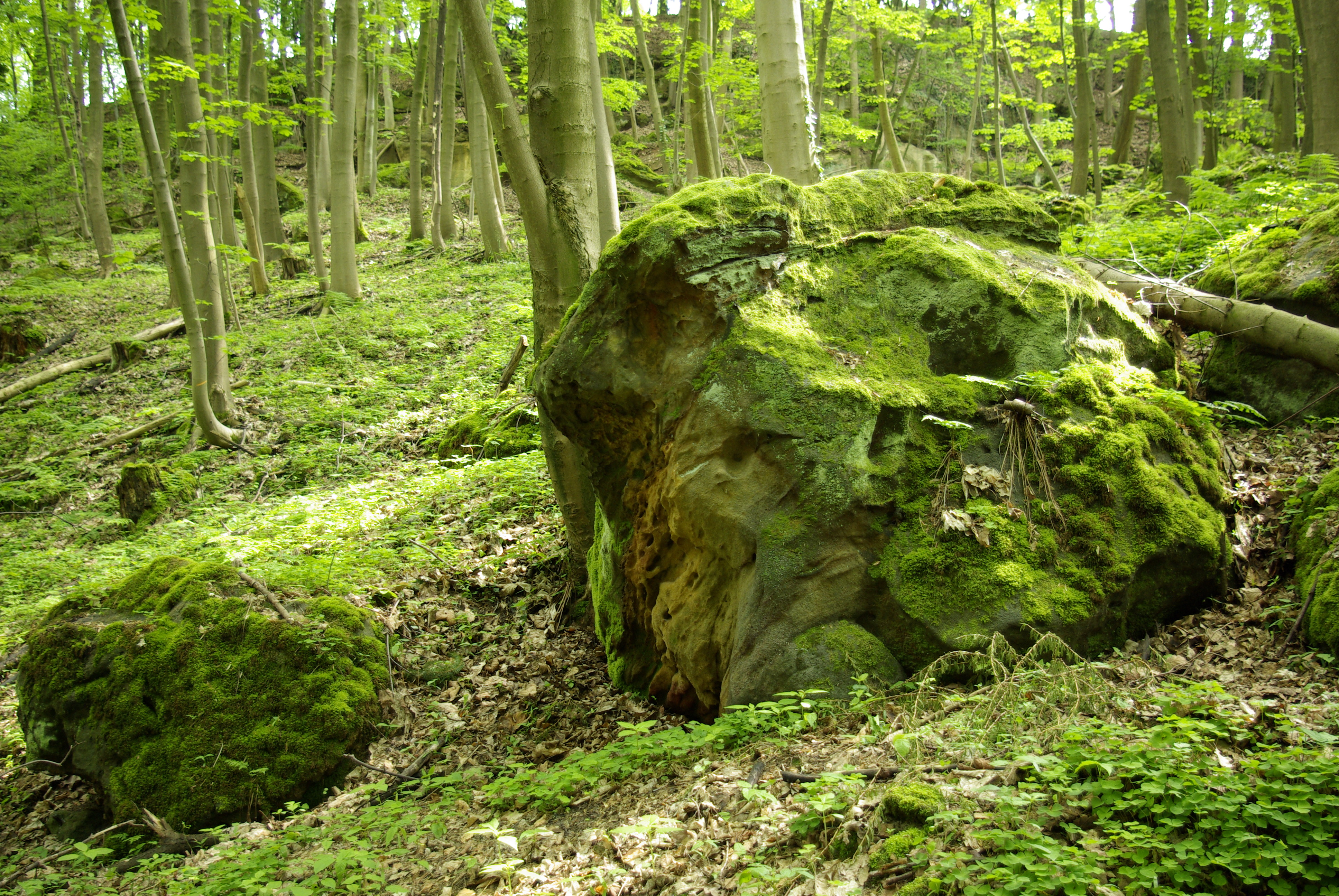 Nature reserve Wildnis am Rathsberg